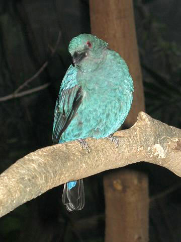 Description: Asian Fairy-bluebird - Source: own work - Location: Bronx Zoo, New York - Author: self, User:Stavenn